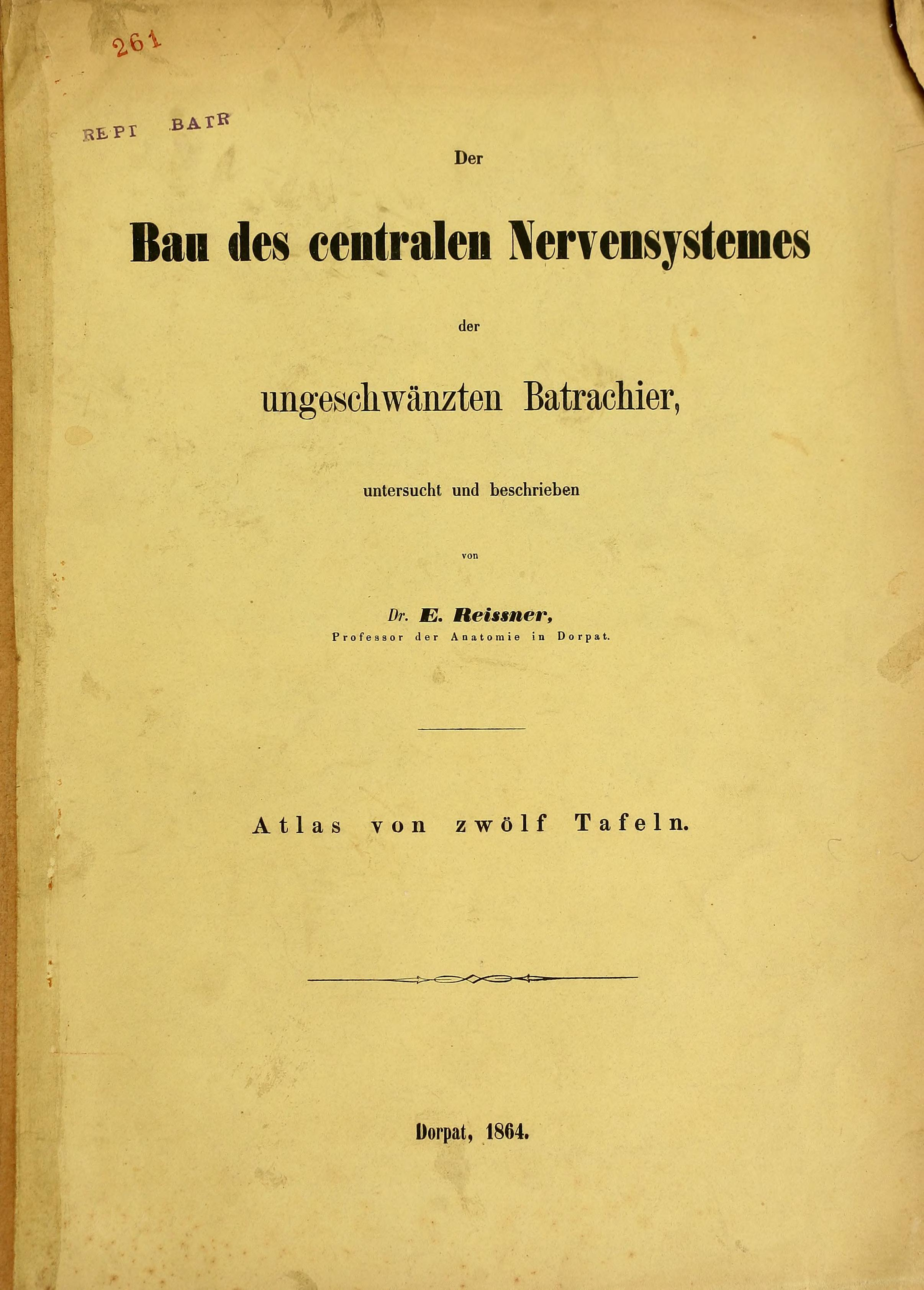 Title page of Reissner's Der Bau des centralen Nervensystemes der ungeschwänzten Batrachier: mit einem Atlas von zwölf Tafeln. Dorpat: E. J. Karow, 1864